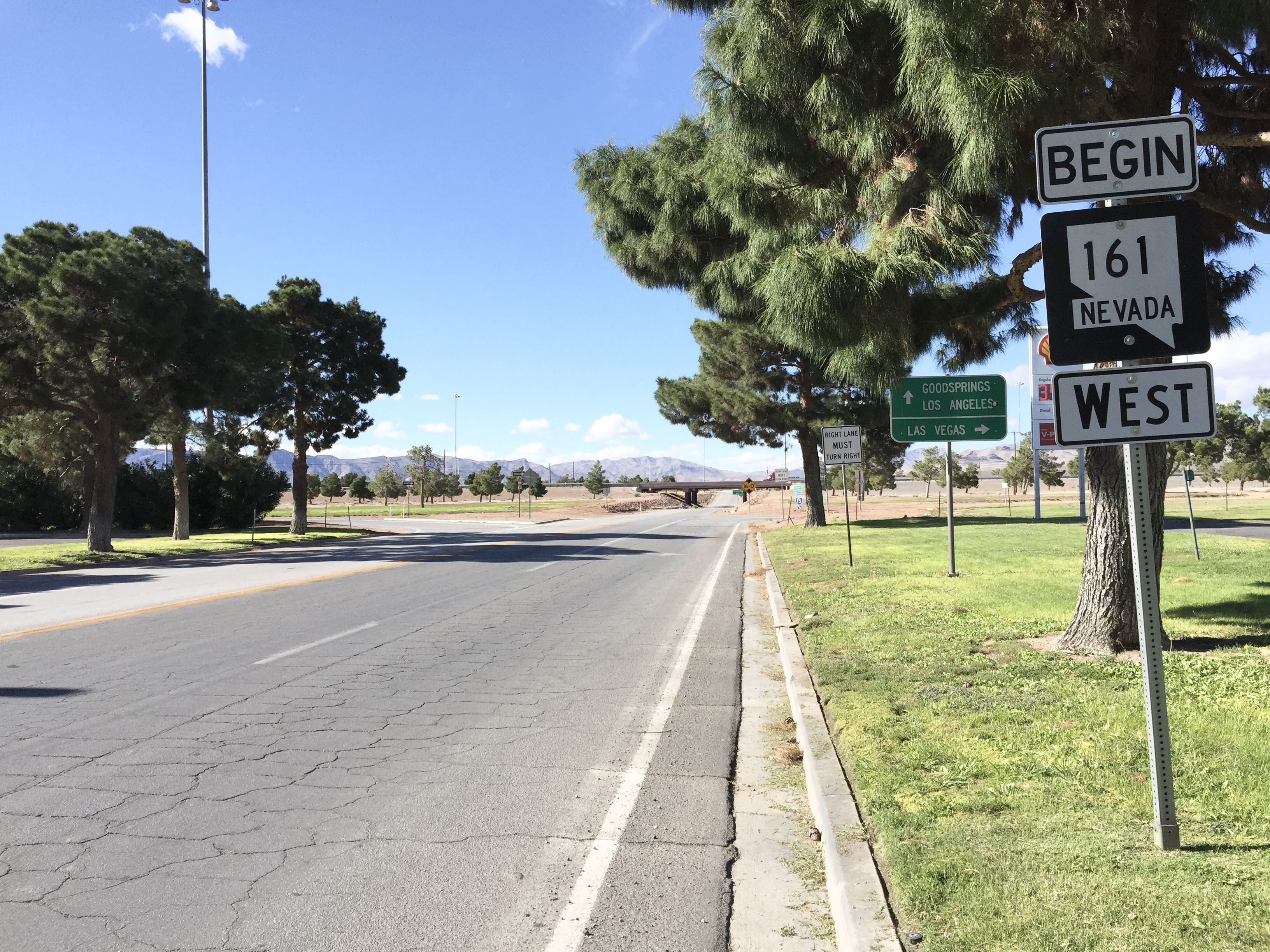 View west from the east end of Nevada State Route 161 (Goodsprings Road) in Clark County, Nevada